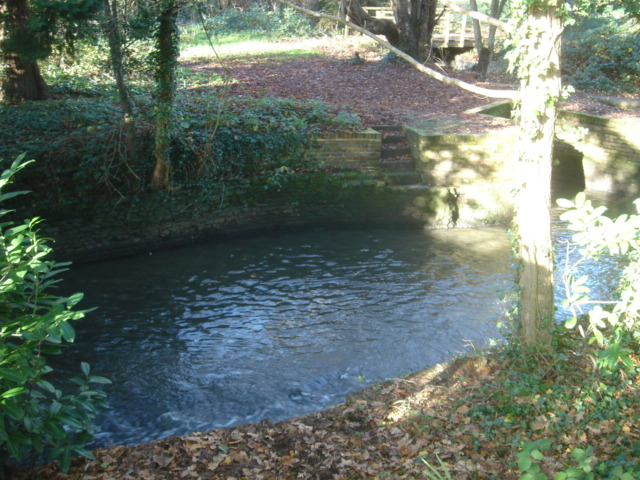 Ifield Brook, just north of Ifield Mill Pond, Ifield, Crawley, West Sussex, England. This fed Ifield Water Mill (q.v.), which is just behind the camera.